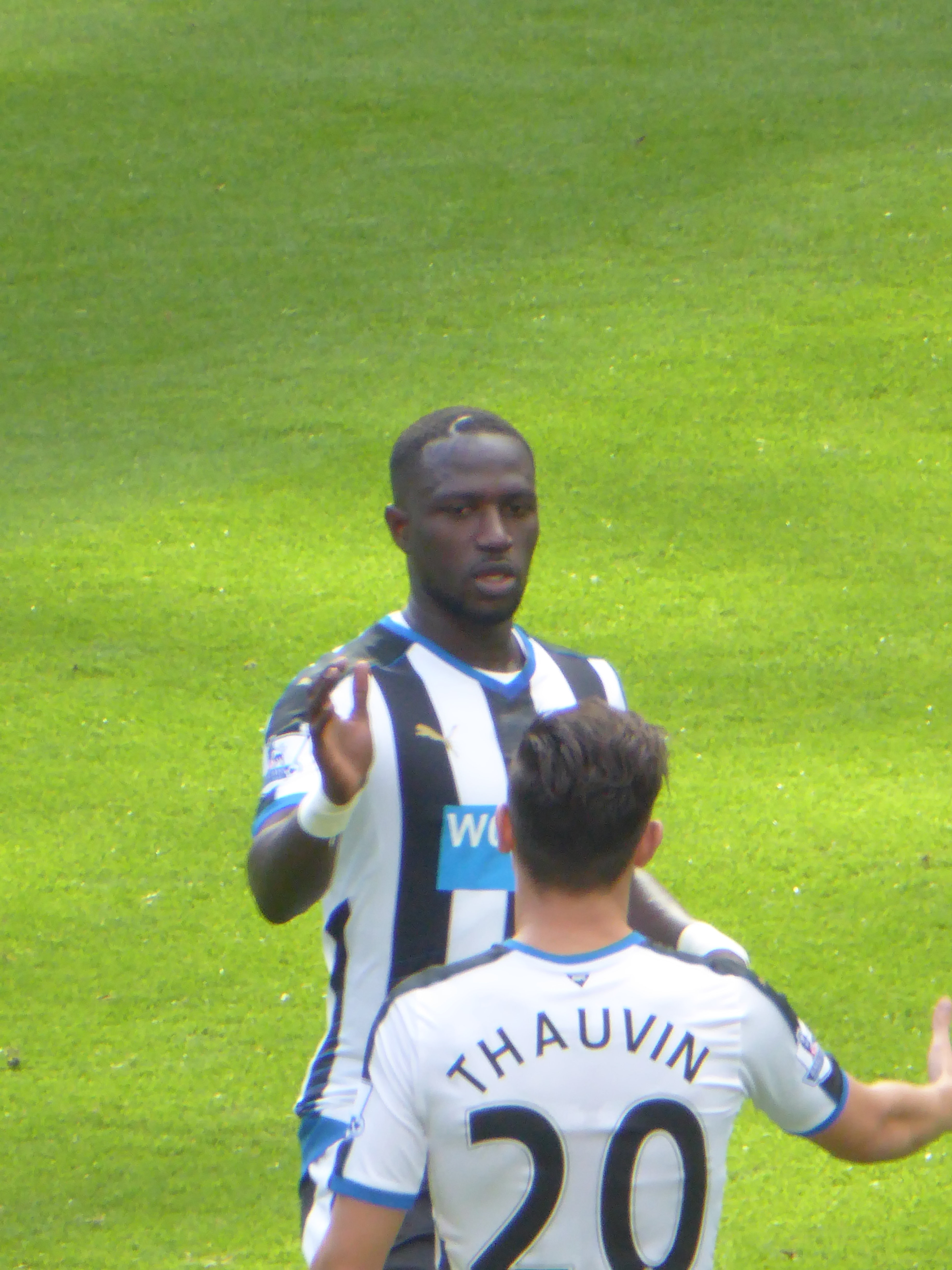 Newcastle United vs Watford (1-2), Barclays Premier League, St James' Park, Newcastle upon Tyne, Tyne and Wear, England, September 2015